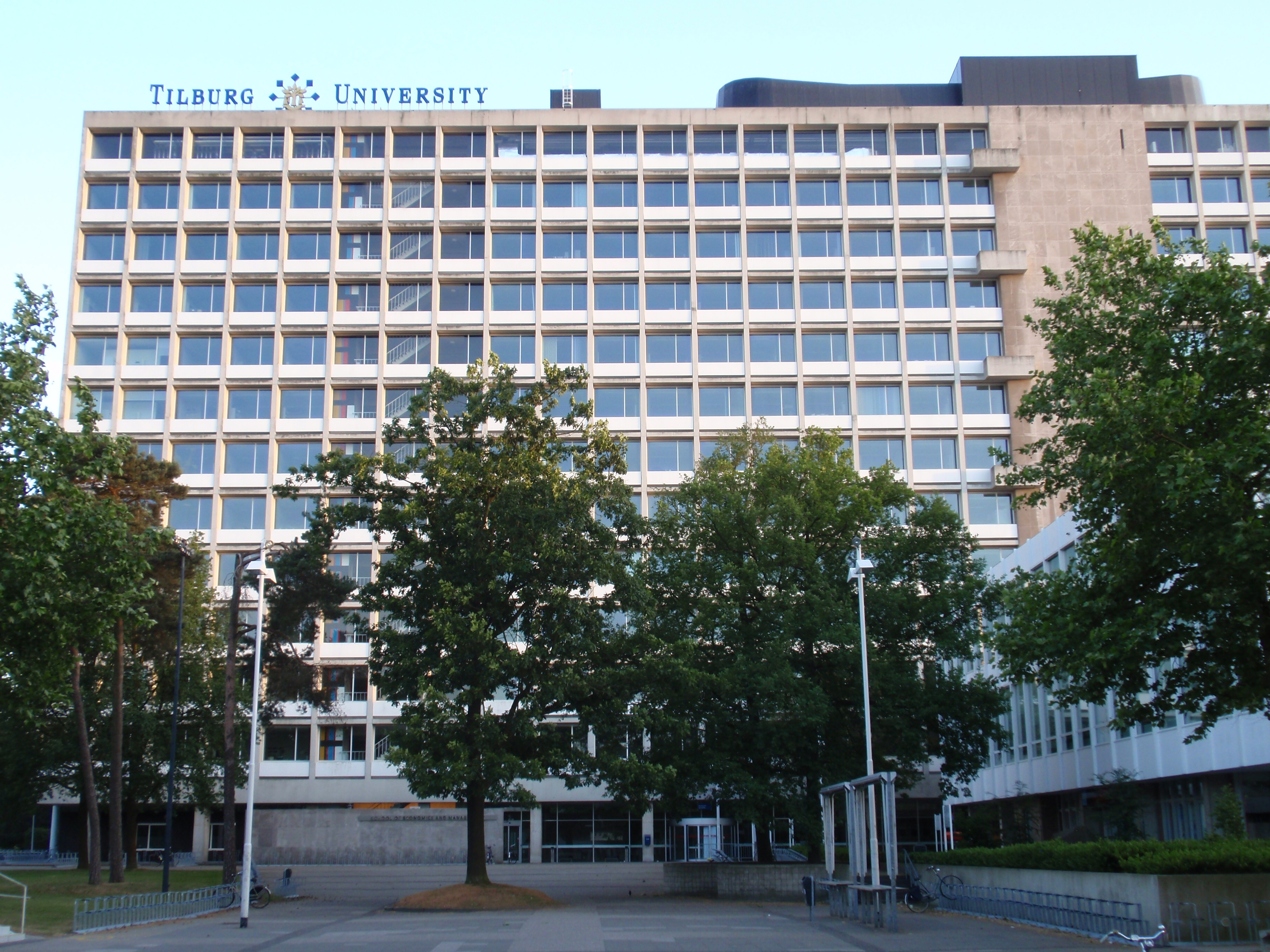 Tilburg University (the Netherlands)